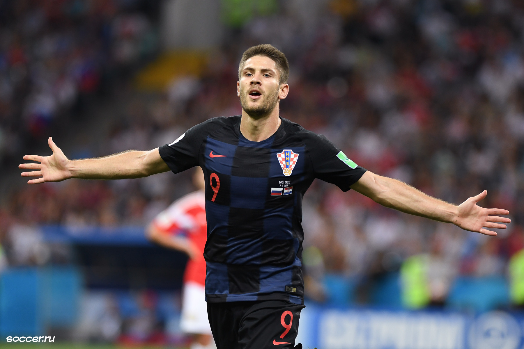 Andrej Kramaric at the 2018 World Cup